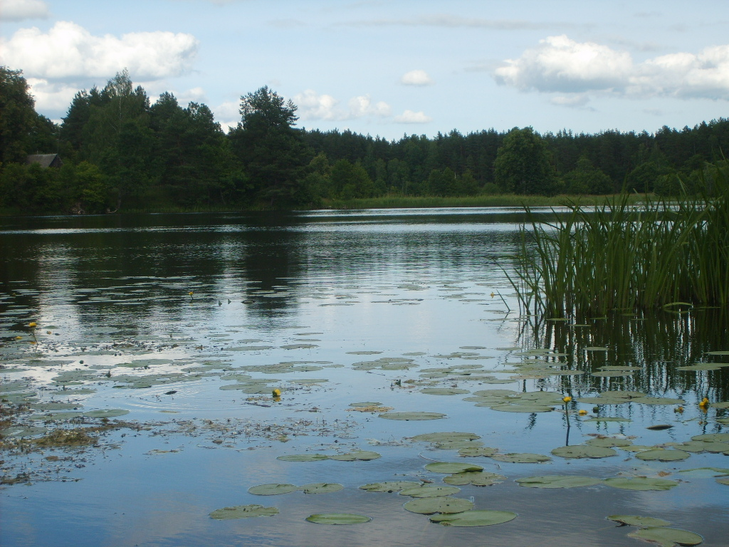 River Stracha nearby village Olhovka